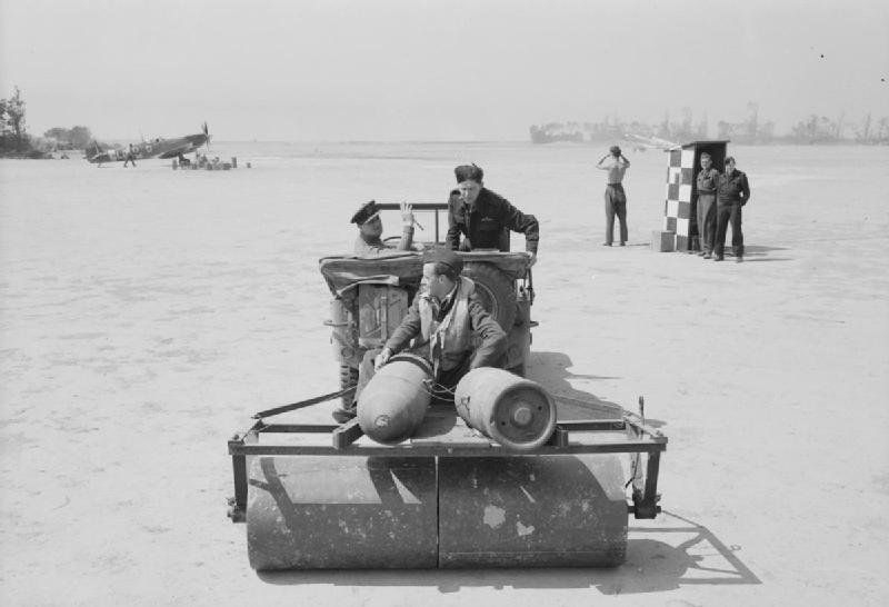 Royal Air Force 1939-1945- Fighter Command Australian pilots of No 453 Squadron help to flatten the airstrip at Longues-sur-Mer (B-11). Flying Officer D Osborne and Pilot Officer A Rice man a jeep, while Pilot Officer J Scott steadies the two 500lb bombs being used to add weight to a locally acquired agricultural roller. In the background, Spitfires of No 602 Squadron depart on an operation, watched by a runway controller working from a converted sentry box.